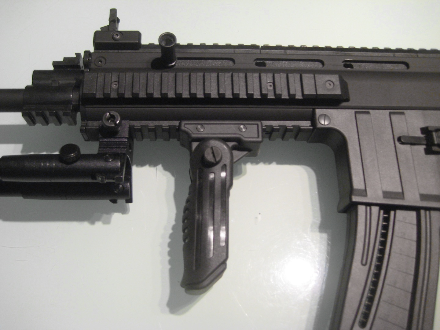 The ISSC MK22 is a .22 LR Cal (5.57 mm) bore semi-automatic rifle clone of the FN Special Operations Forces Combat Assault Rifle (SCAR). It has ambidextrous controls, 22 round magazines,folding but-stock,tool compartment in pistol grip, flip-up iron sights and redundant picatinny rails capable of holding many accessories. Seen here is a civilian-accessible model acquired from Mexico Secretariat of Defense (SEDENA) equipped with sling, bipod and vertical grip.